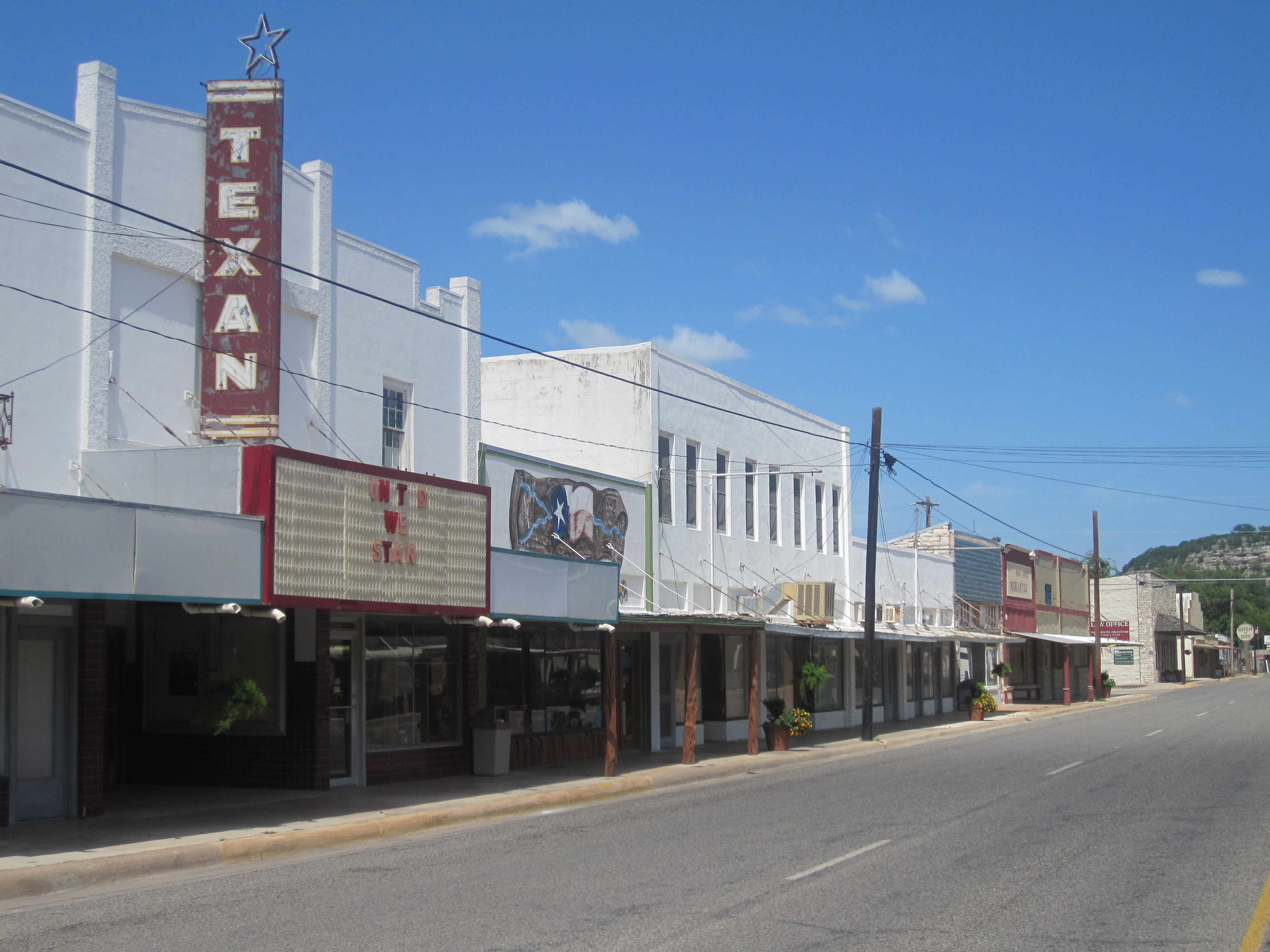 I took photo with Canon camera in Junction, TX.